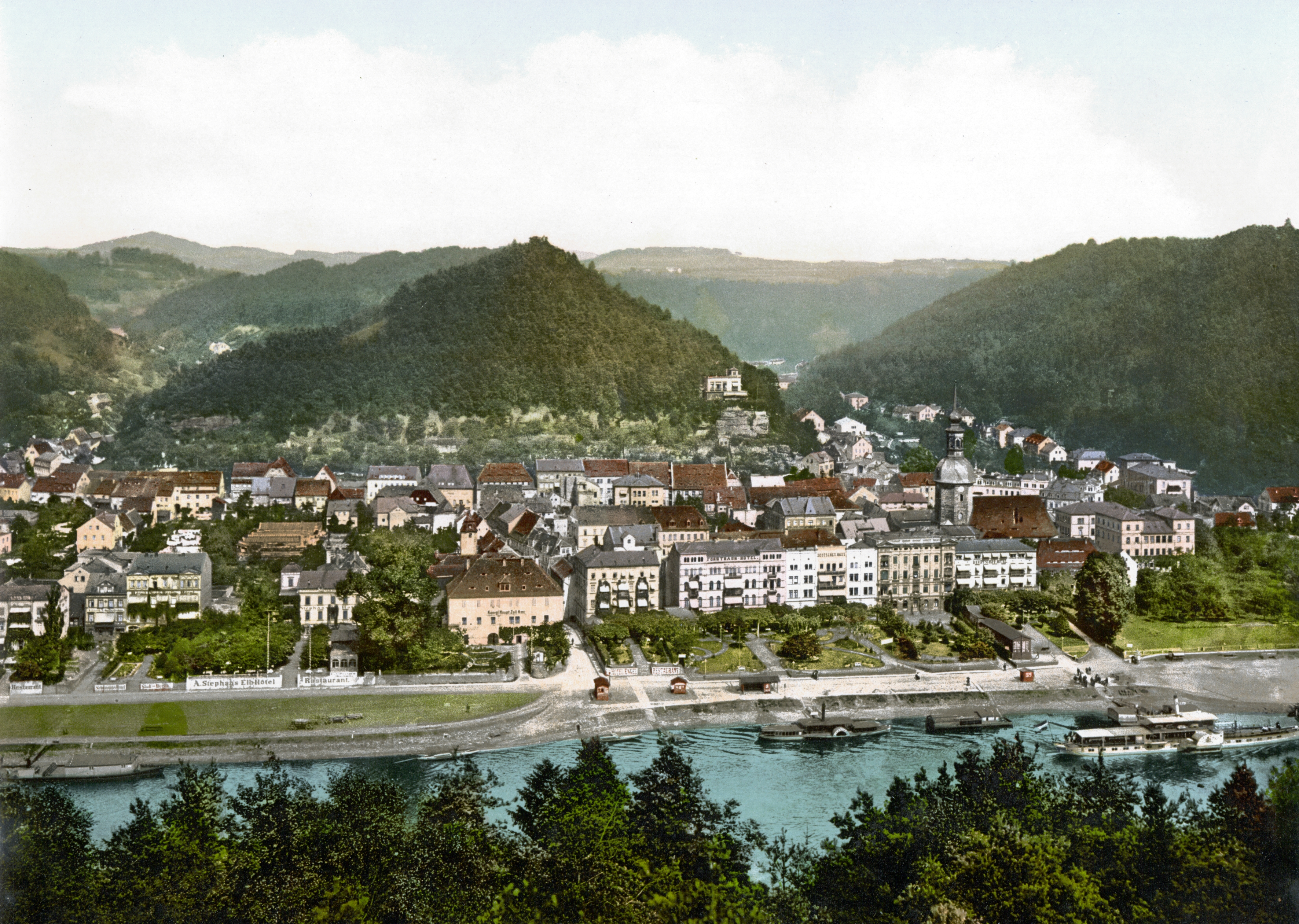 Bad Schandau (Saxony, Germany)